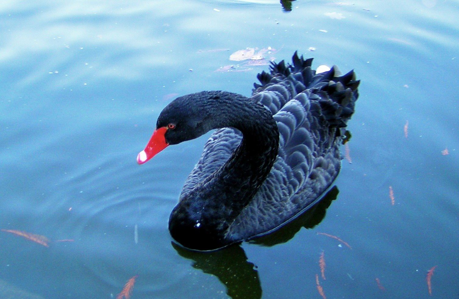 Black Swan in a Pond